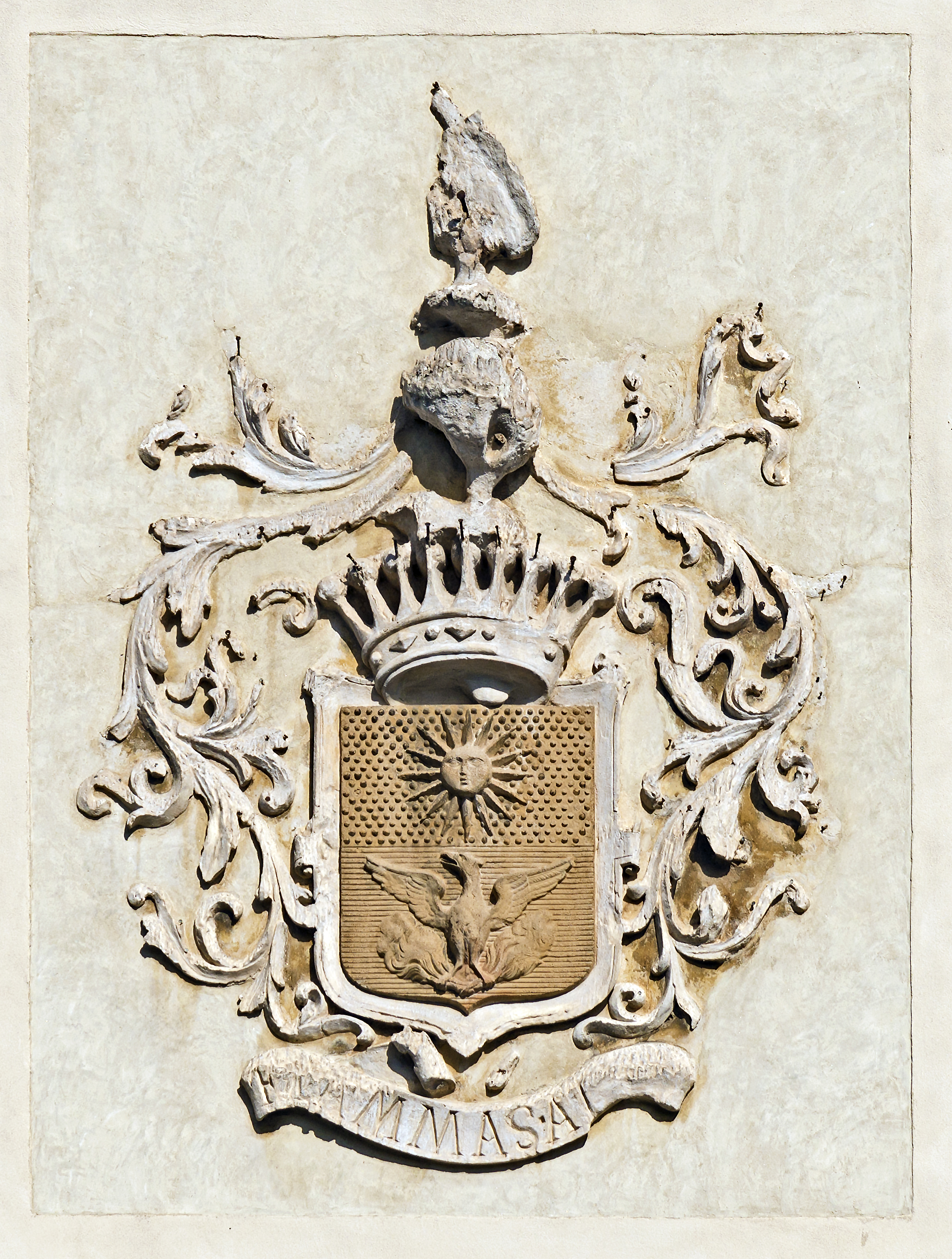 Palace Foresti Papadopoli in Venice. Family coat of arms on the facade.